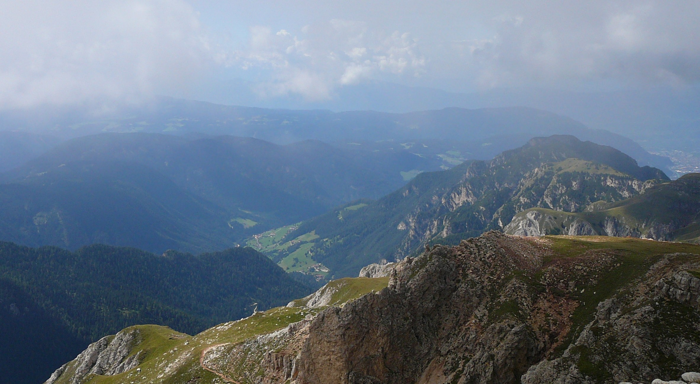 Tiersertal seen from the Schlern, South Tyrol